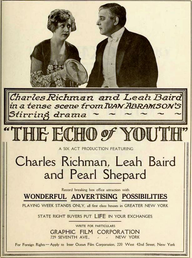 Ad for the American drama film The Echo of Youth (1919) with Leah Baird and Charles Richman, on page 995 of the February 22, 1919 Moving Picture World.